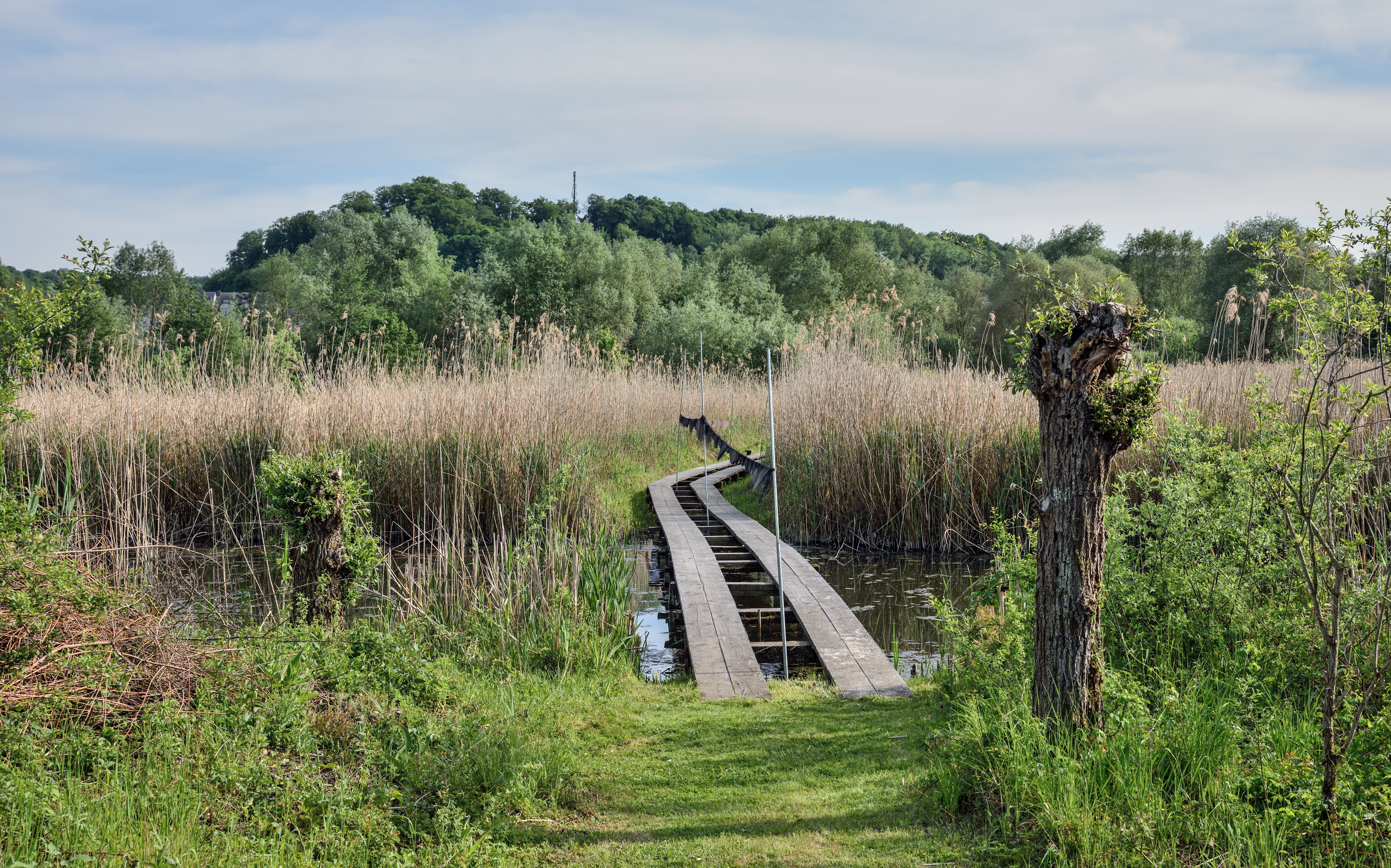 Nature reserve Brill in the commune of Schifflange, Luxembourg. Along the duckboard: (inactive) mist nets for the capture and ringing of birds.